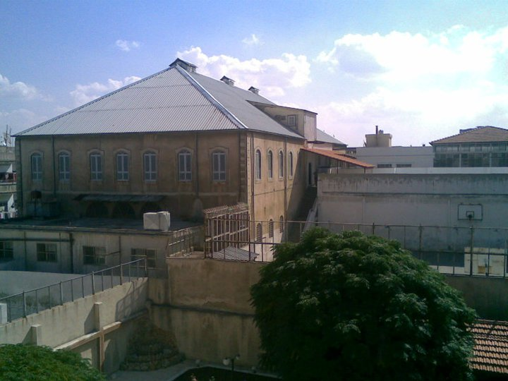 Main Building, Courtyard